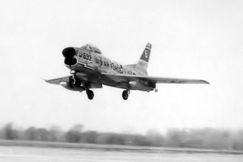 North American F-86D-55-NA Sabre 53-692, 14th Fighter-Interceptor Squadron